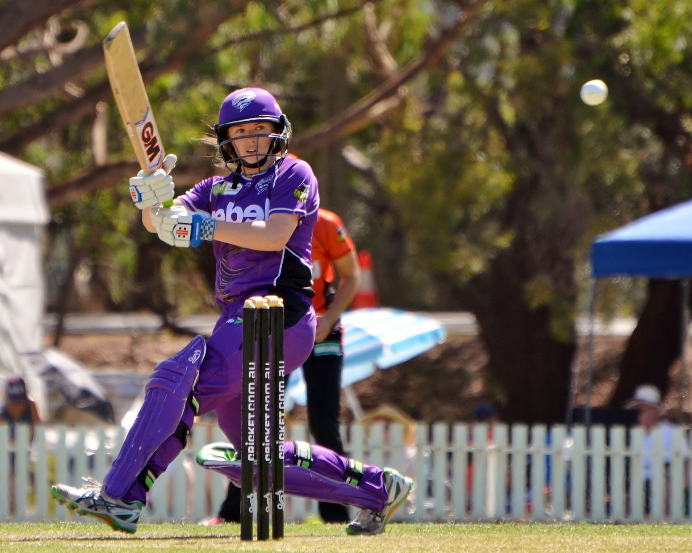 Hobart Hurricanes all-rounder Sasha Moloney batting against the Perth Scorchers, in a WBBL match at Lilac Hill Park in Perth